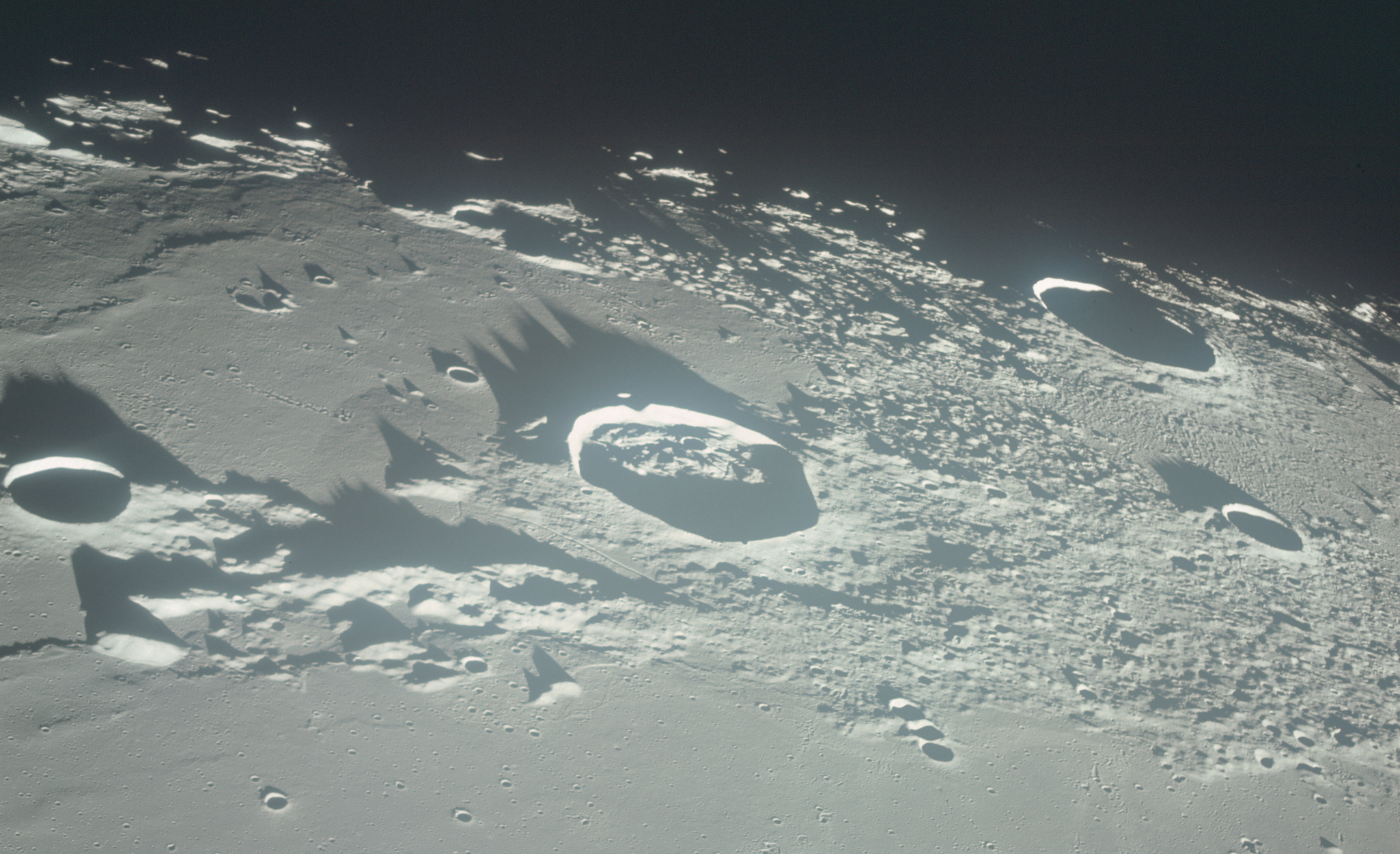 Oblique view centered on Encke crater near the terminator, on the moon.